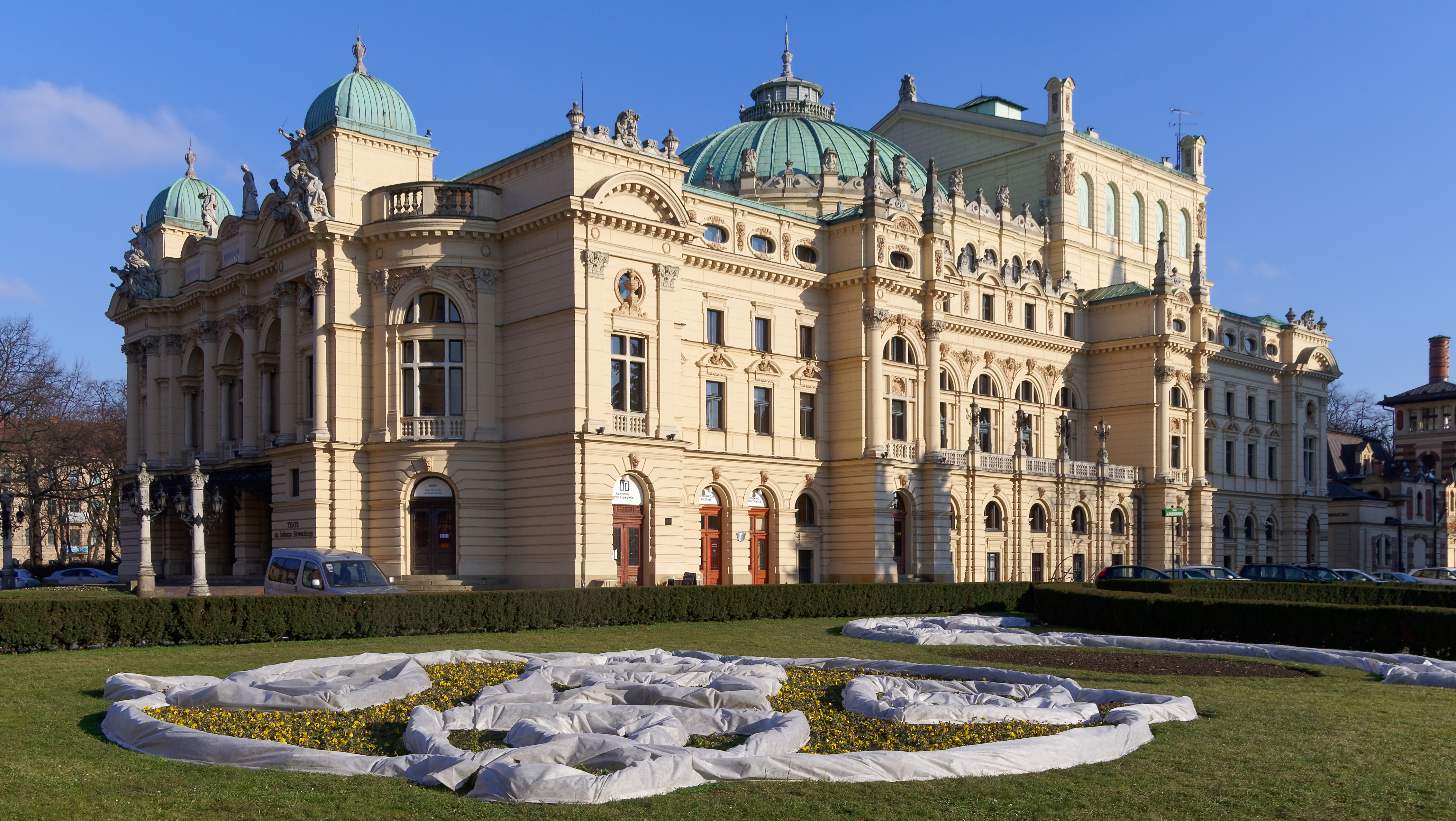 Juliusz Słowacki Theatre in Kraków